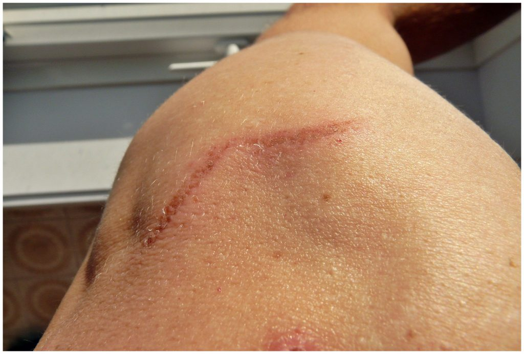 scarring from laser tattoo removal